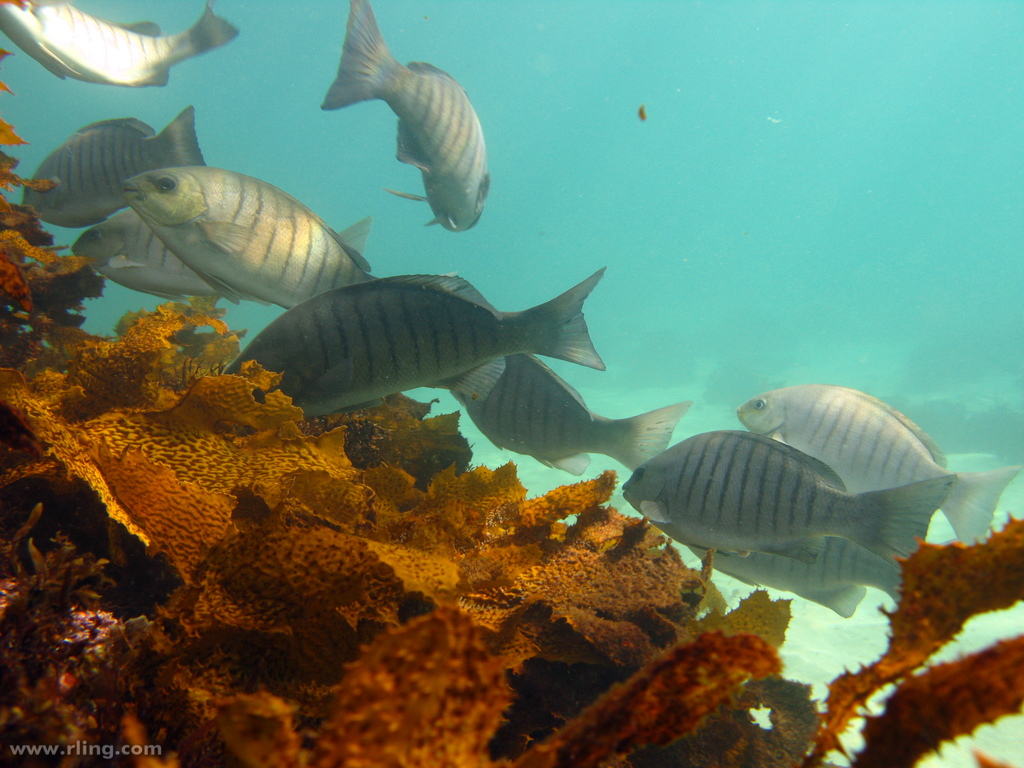 A school of Luderick (Girella tricuspidata). Fairy Bower, Manly, NSW